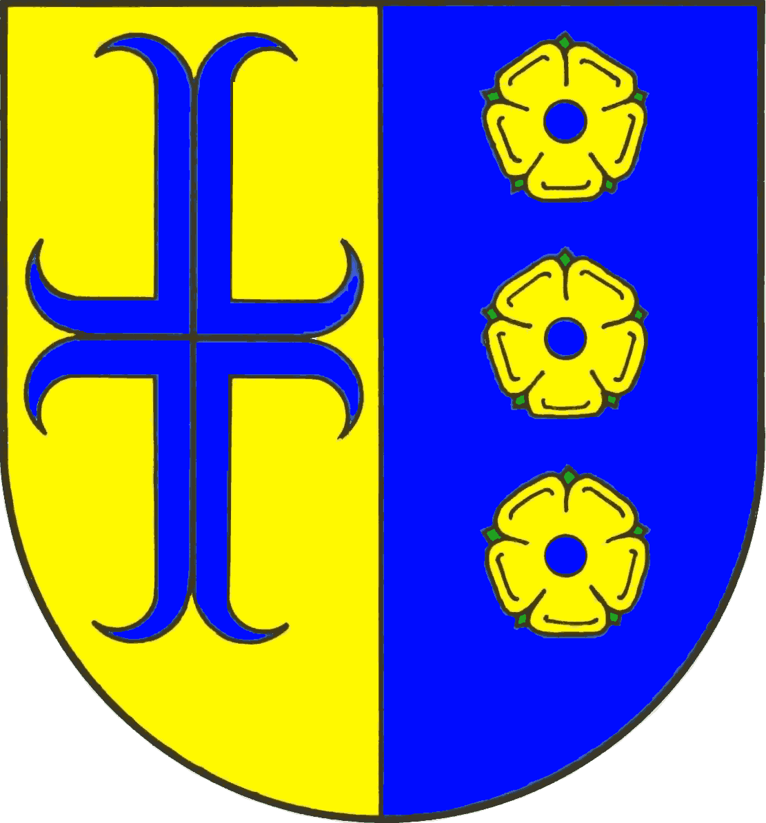 Coat of arms of the municipality Grundhof in Schleswig-Holstein, Germany.